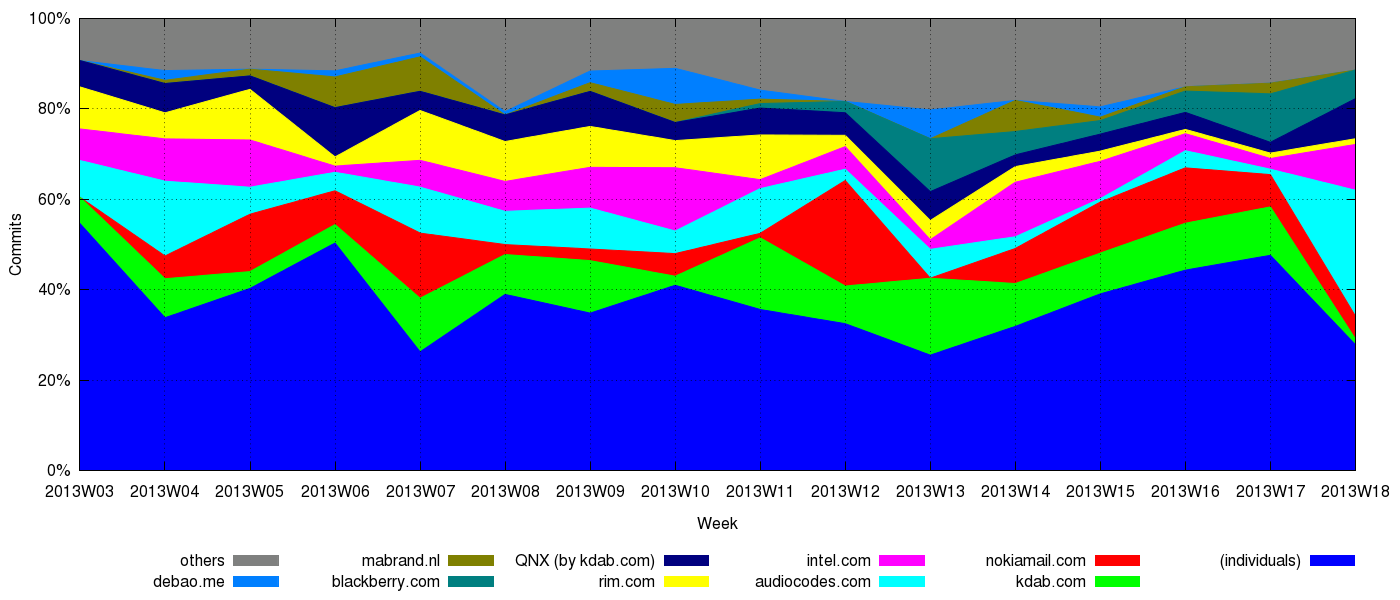 Qt contributors excluding Digia.